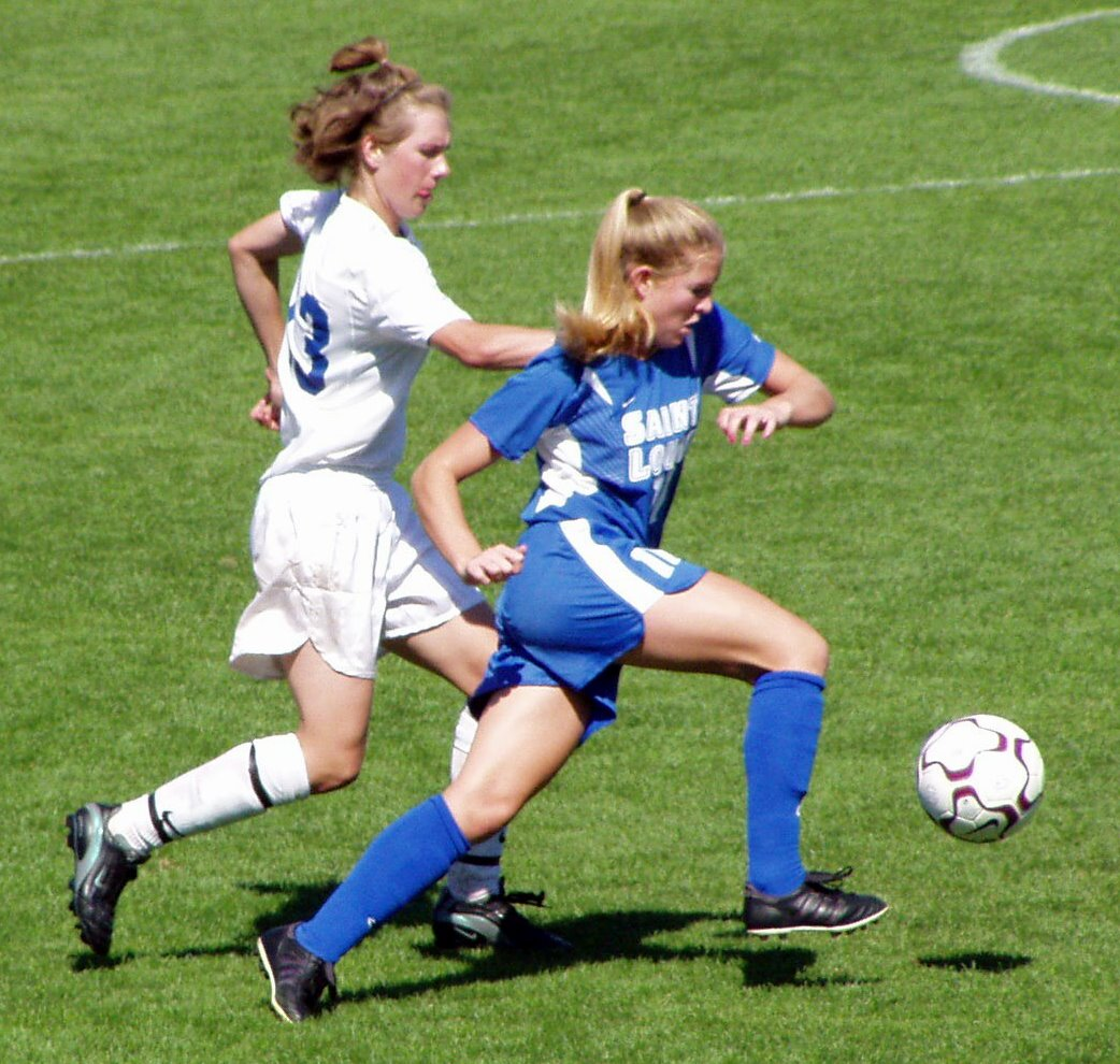 SLU vs. Airforce